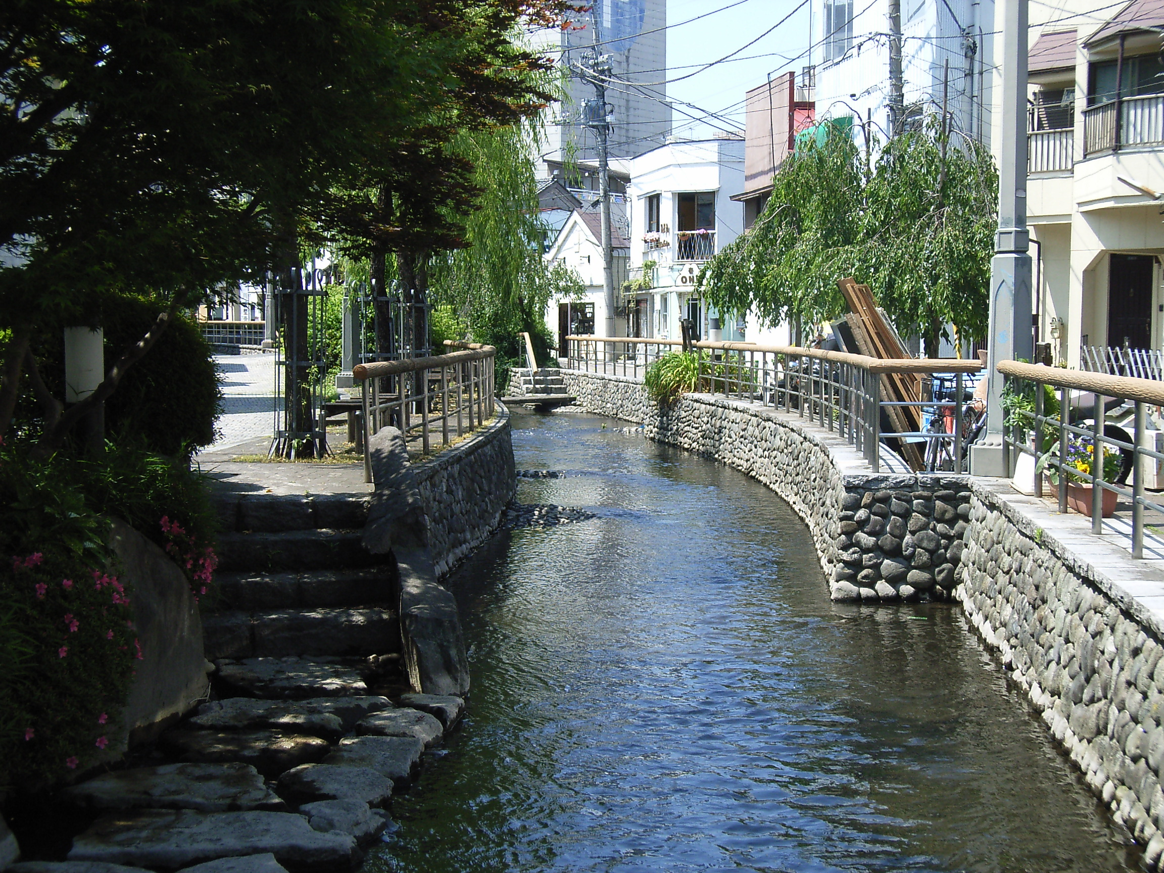 Kama River (Kama-gawa). Utsunomiya, Tochigi prefecture, Japan.